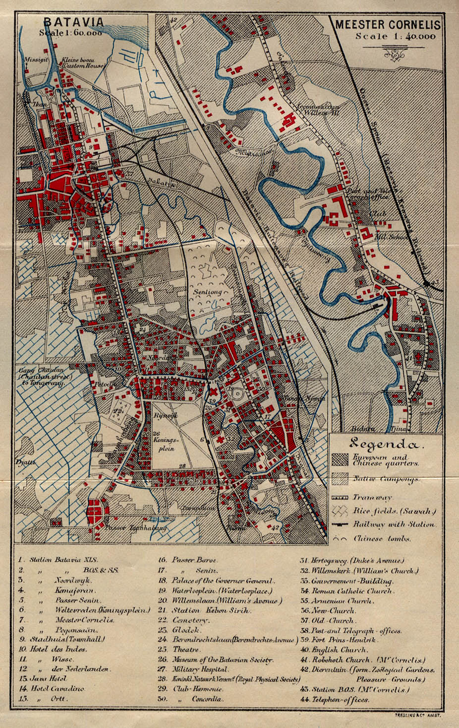 Batavia [Jakarta] 1897 From Guide to the Dutch East Indies by Dr. J.F. van Bemmelen and G.B. Hoover, Luzac & Co, London 1897. Courtesy of the University of Texas Libraries, The University of Texas at Austin.